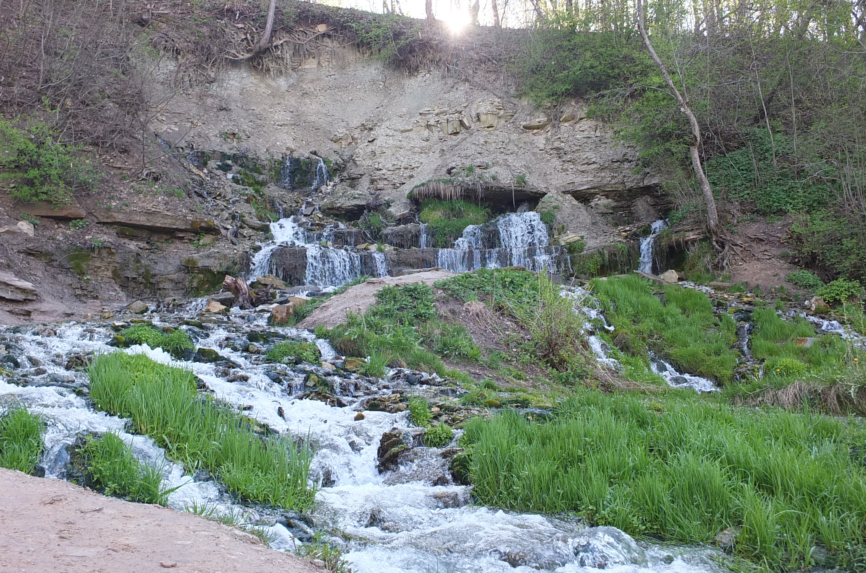 Sloven springs, Izborsk This image is related to the protected area of Russia number 6010236